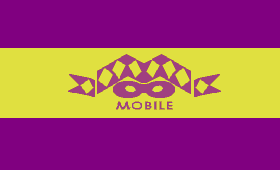 Stylized large image (not to scale) similar to the official Mardi Gras flag, during 2007, of Mobile, Alabama, which has celebrated Mardi Gras since 1703. The image is not the actual official flag emblem, just a stylized image. The file is in GIF format to allow precise editing.